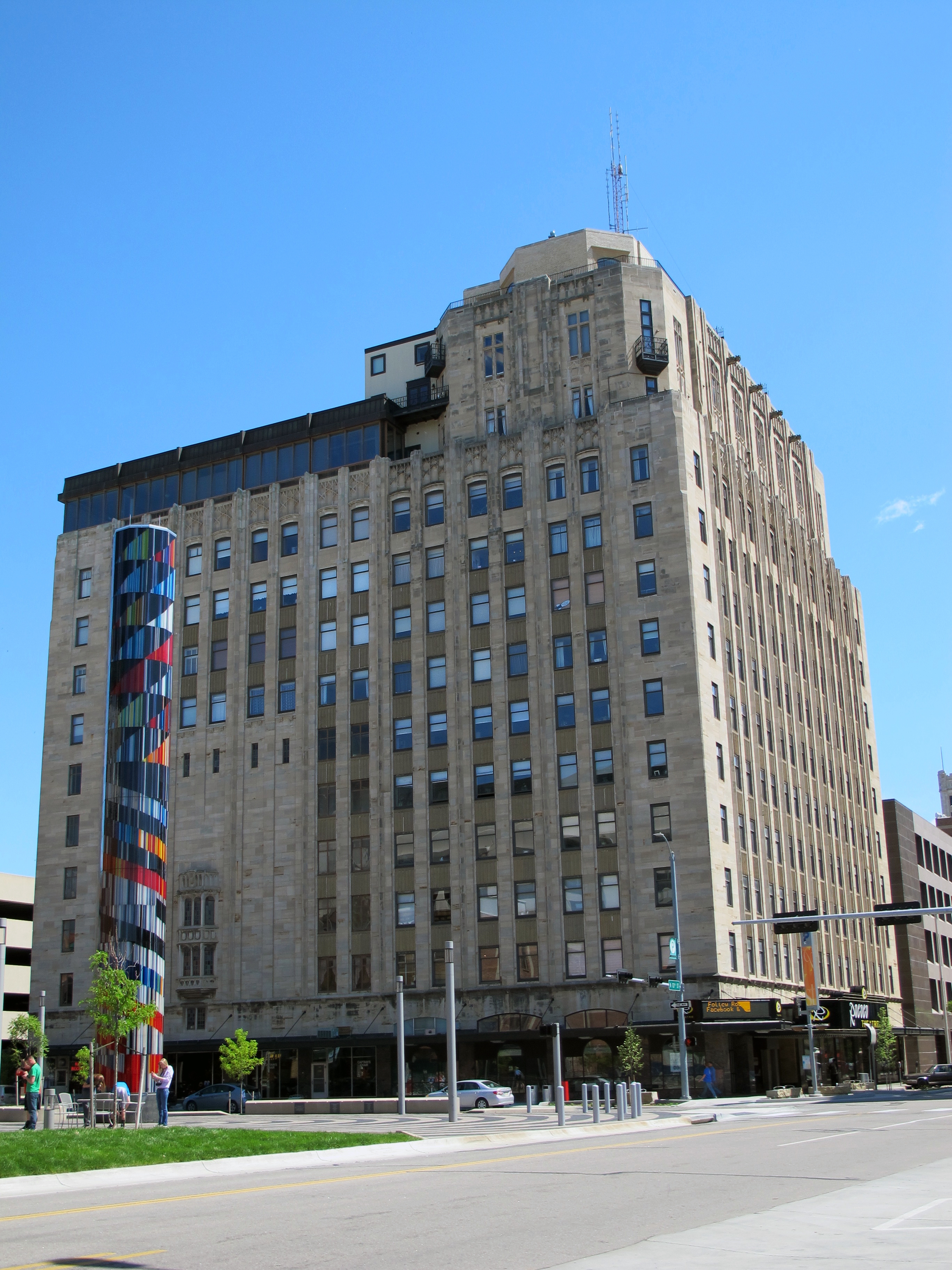 Photo of the Stuart Building, 128 N. 13th Street in Lincoln, Nebraska. Jun Kaneko's "Ascent"; a 57-foot glass spire, located at the Lincoln Community Foundation Tower Square, can be seen in the lower-left portion of this photo.